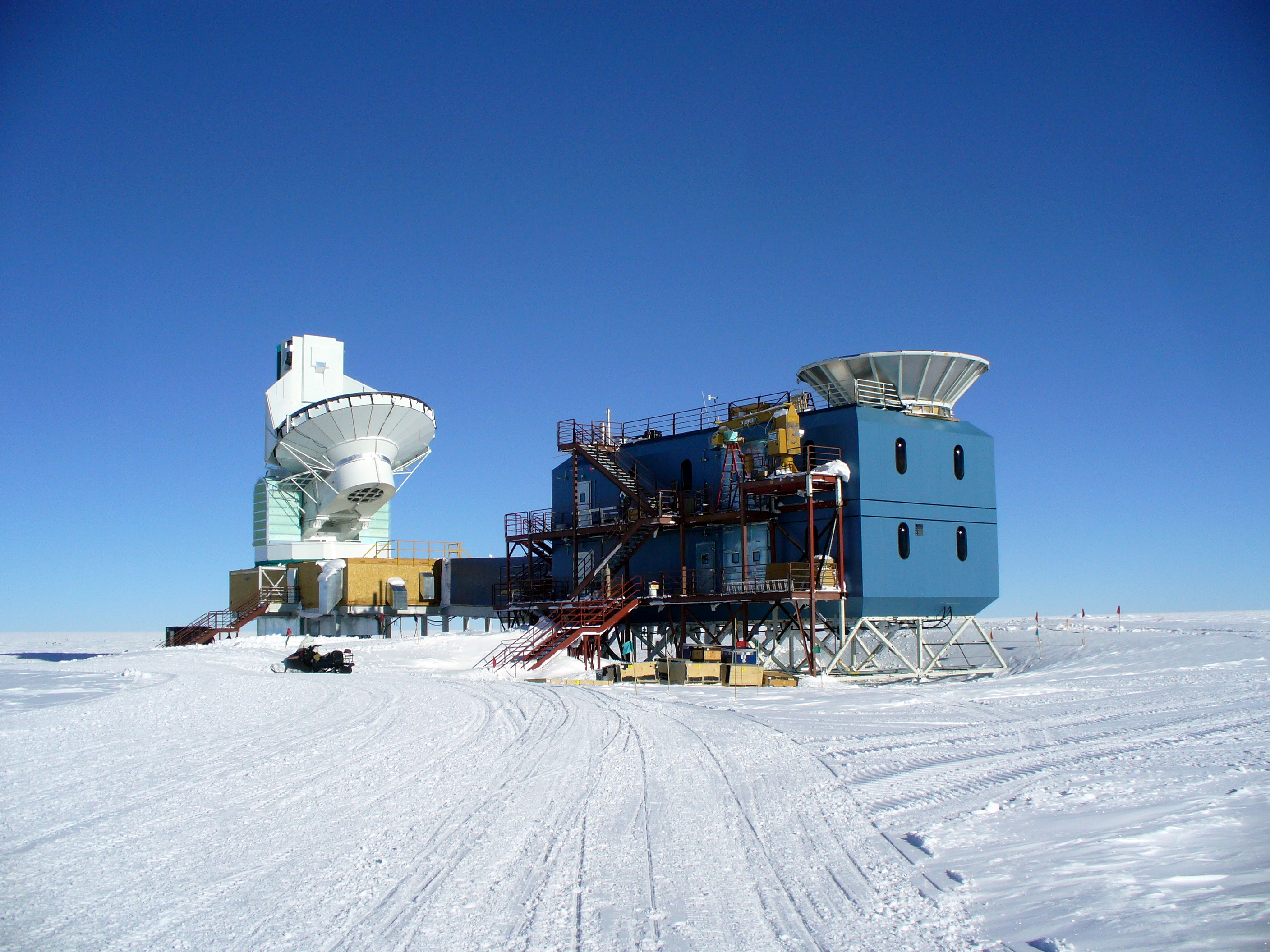 The Dark Sector Laboratory at Amundsen-Scott South Pole Station. At left is the South Pole Telescope. At right is the BICEP2 telescope.